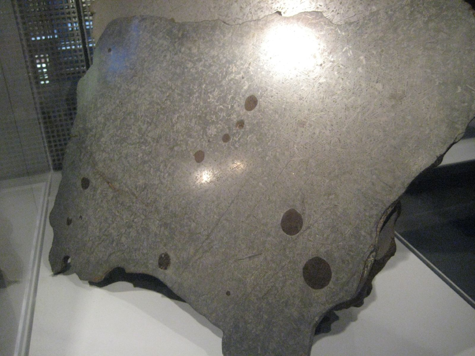 Grant meteorite. Found in 1929, Cibola County, New Mexico.